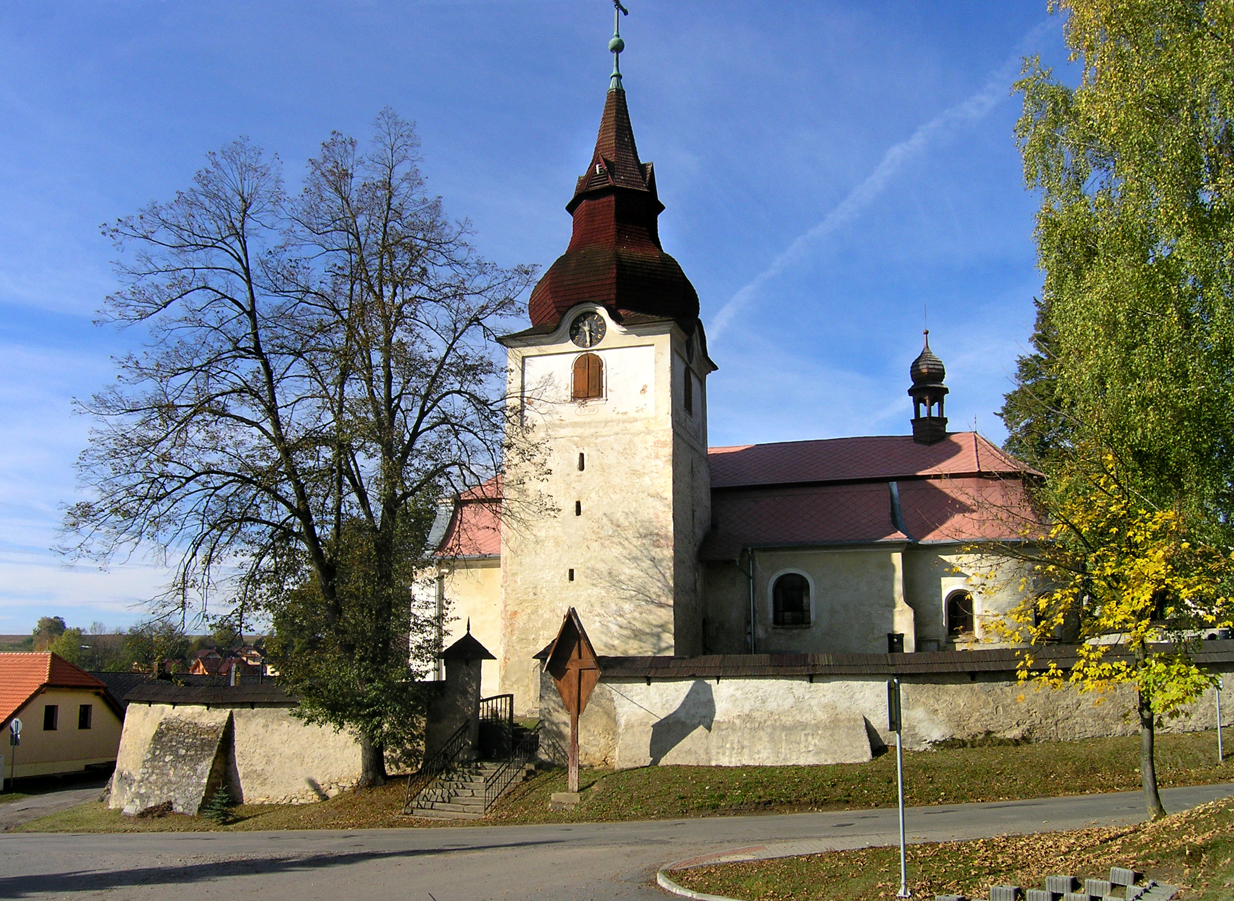 Church in Vyskytná nad Jihlavou, Czech Republic